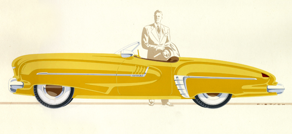 The original drawing has been donated to the Museum of Fine Arts, Boston, but the image posted here was made by me, T. W. Pietsch III. Please see the correspondence below from Jennifer C. Riley, Head of Image Licensing and Digital Archives Museum of Fine Arts, Boston. You may tell them that while the Museum of Fine Arts, Boston owns the artwork; we do not retain the copyright to Theodore Wells Pietsch II’s images. Best, Jennifer Jennifer Riley Head of Image Licensing and Digital Archives Museum of Fine Arts, Boston | 617-369-3777 Dear Mr. Pietsch, Regarding copyright, you retain copyright to any photos you took of the drawings made by your father. The copyright to the artworks and photographs does not revert to the Museum automatically upon donation of the works. The copyright to the photographs that you took stays with you so you have every right to upload those photos to Wikipedia. I am happy to provide you with language necessary for you to pass on to Wikipedia so you can reload the images. Since the Museum does not, in fact, hold the copyright to those photos, we cannot upload them. Best, Jennifer Jennifer Riley Head of Image Licensing and Digital Archives Museum of Fine Arts, Boston | 617-369-3777